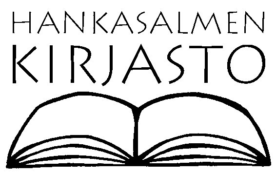 Logo of Hankasalmi Library, Hankasalmi, Finland